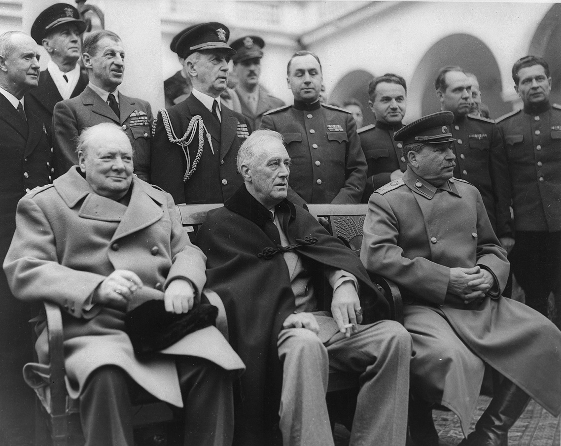 Yalta Conference, February 1945 Seated are: Winston Churchill, Franklin D. Roosevelt and Josef Stalin Standing behind are: Admiral of the Fleet Sir Andrew Cunningham, RN, Marshal of the Royal Air Force Sir Charles Portal RAF and Fleet Admiral William D. Leahy, USN and Soviet officers